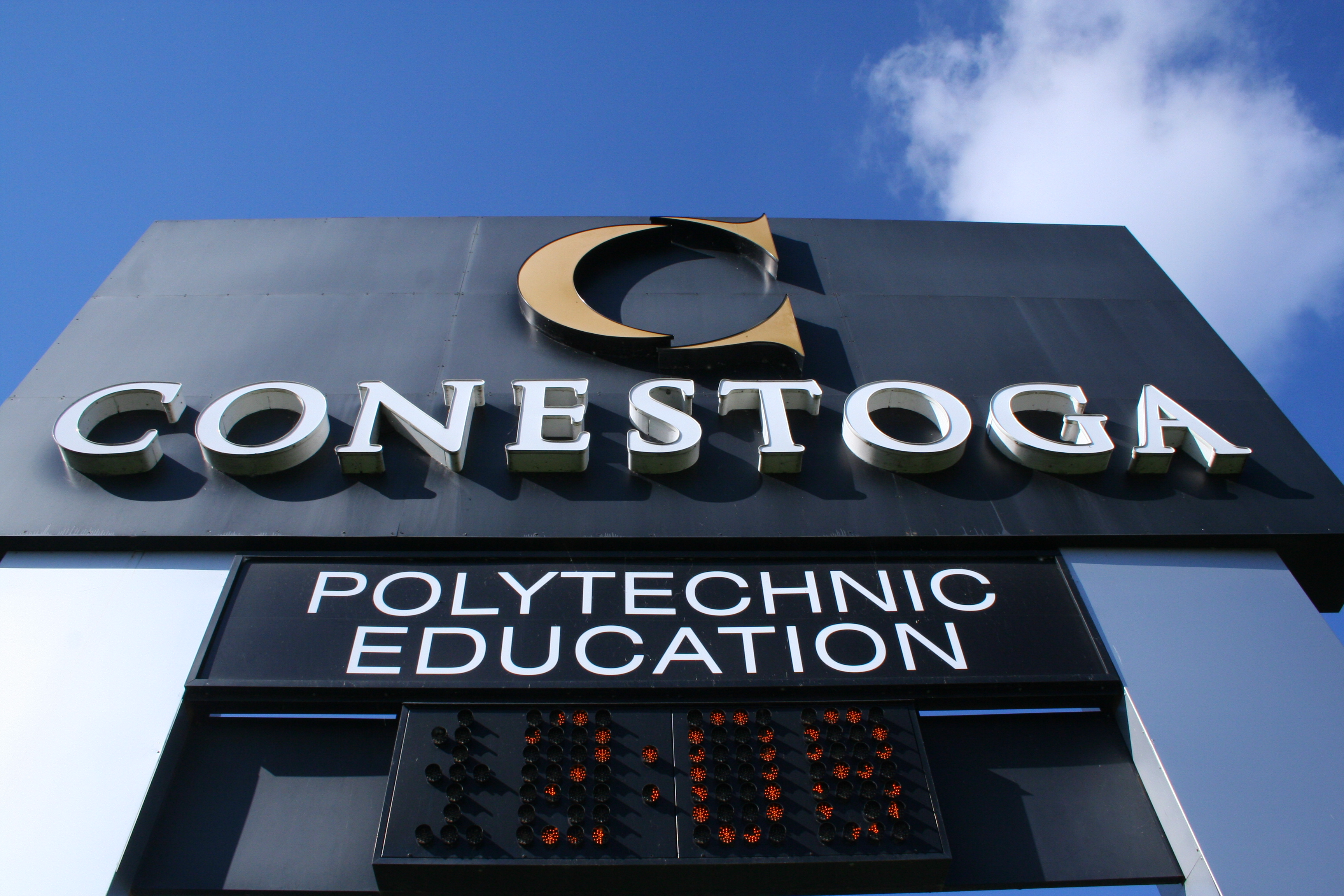 This shows the Conestoga sign that can be seen from the Macdonald-Cartier (401) Highway. It is taken from directly beneath the sign.